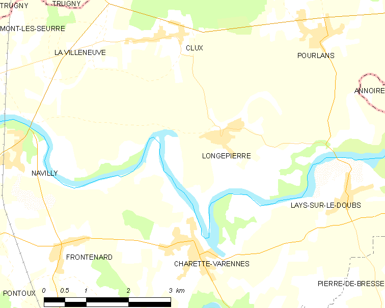 Map of French municipality